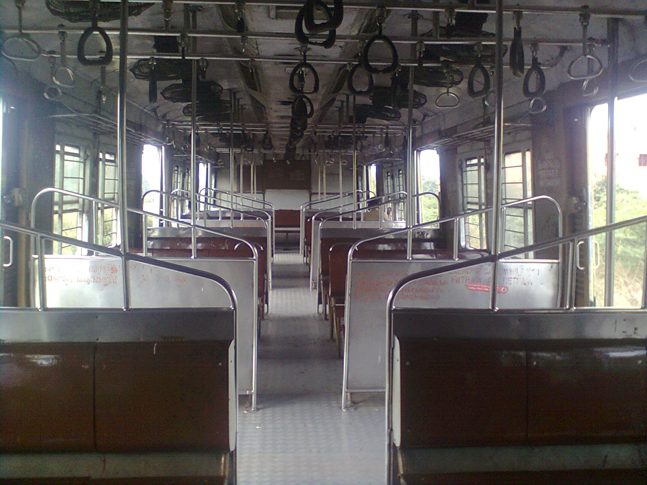 Chennai suburban train inside photo taken in pattabiram